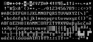 Full character set of code page 737, as should be displayed by VGA with 9×16 glyphs. Letters Ϊ and Ϋ are self-made as available fonts lacked them.